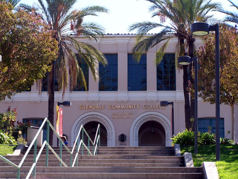 Administration Building of Glendale Community College; located in Glendale, California, United States.